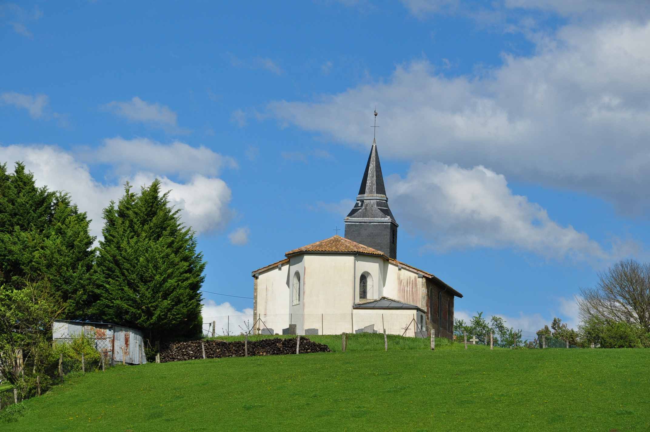 Church of Ante (municipality Sivry-Ante, Department Marne, France), taken from the Ruede la Gare